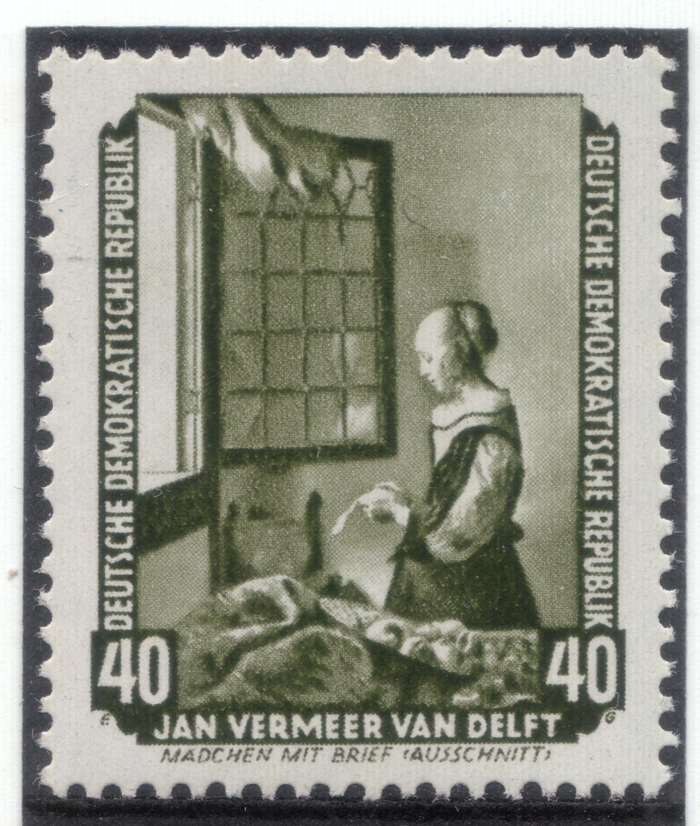 Restitution of german paintings by the USSR I Graphic designer: Gruner Ausgabepreis: 40 Pf First Day of Issue / Erstausgabetag: 15. Dezember 1955 Michel-Katalog-Nr: DDR 508